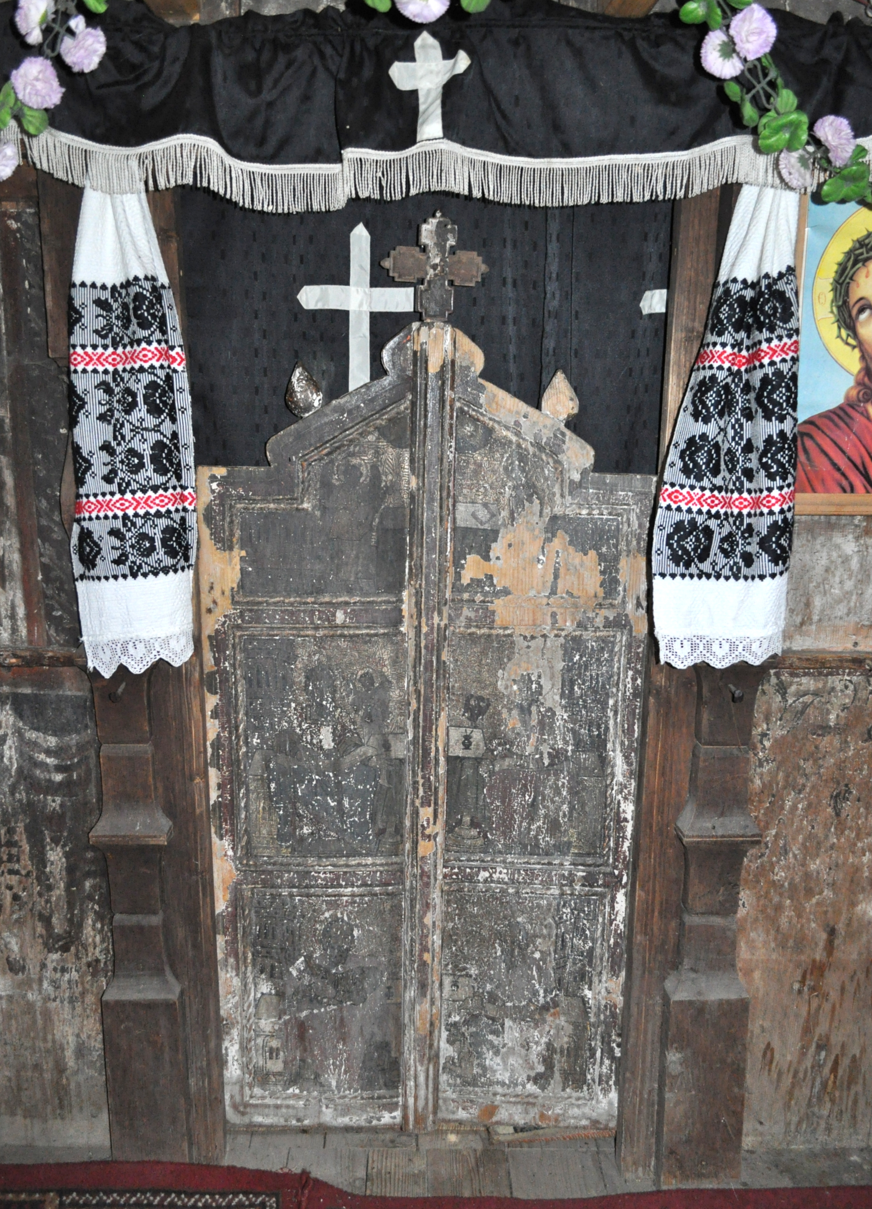 Wooden church in Chețani, Mureș county, Romania